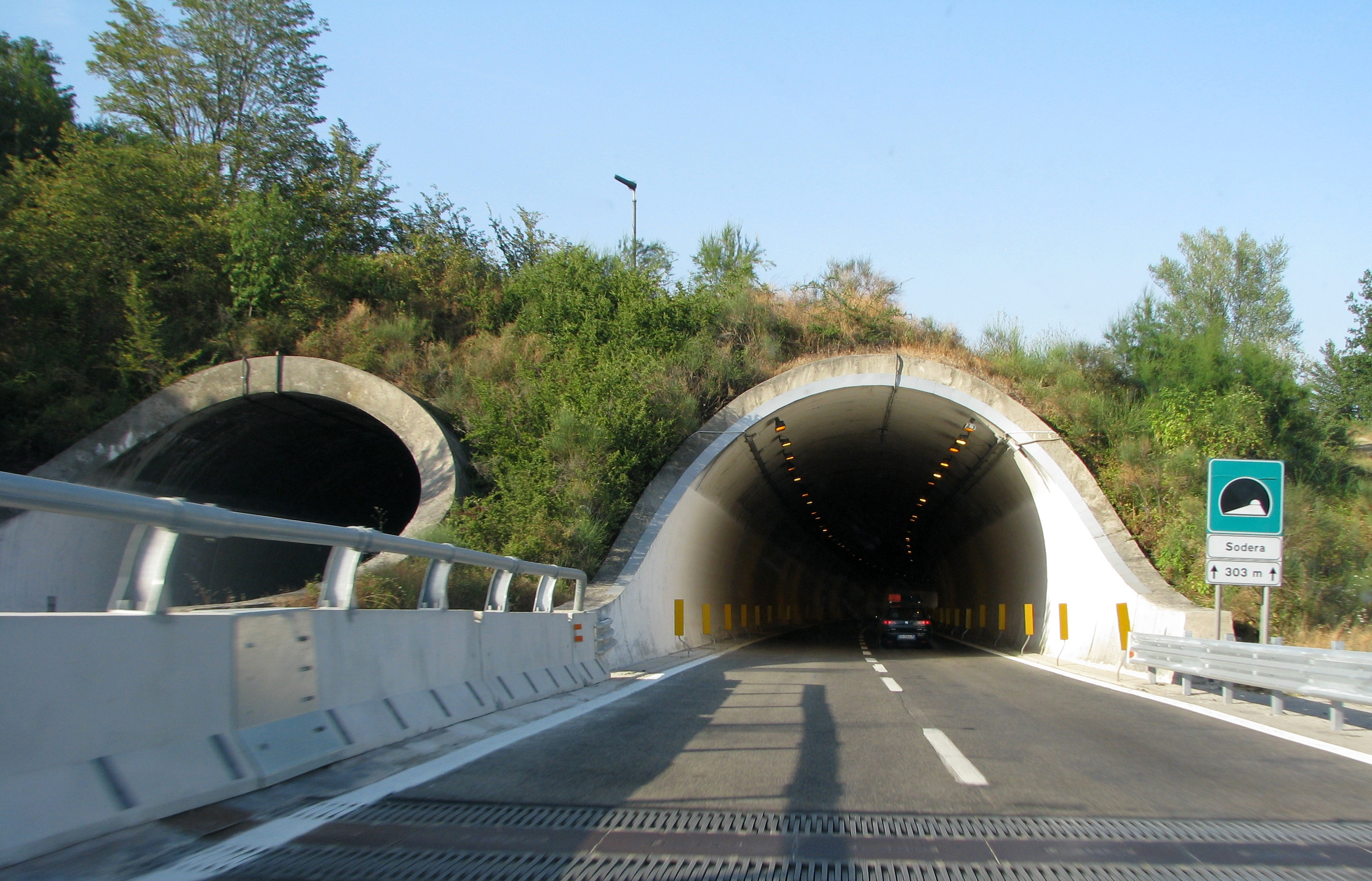 A24 Motorway, Italy, Sodera tunnel